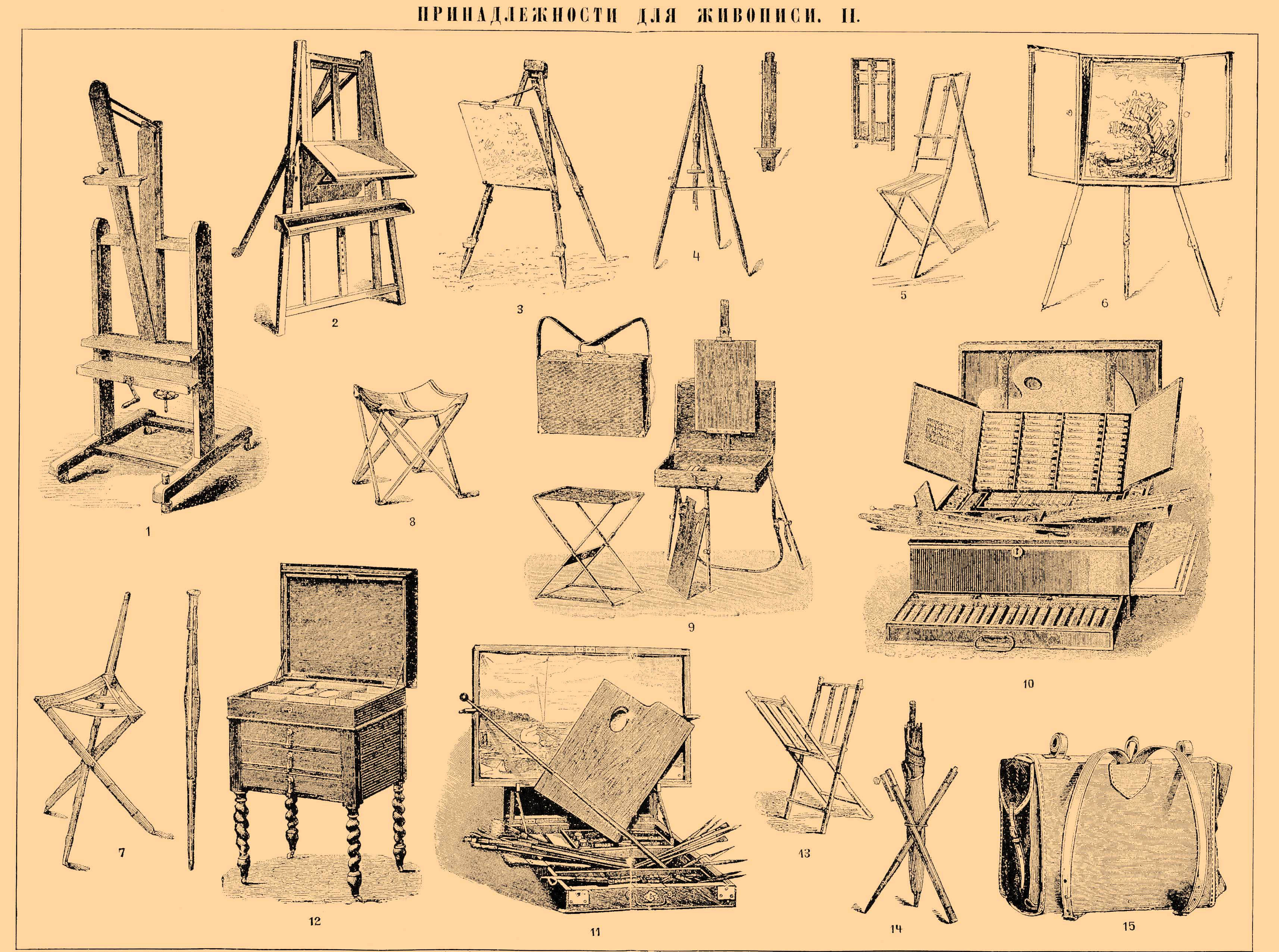 Illustration from Brockhaus and Efron Encyclopedic Dictionary (1890—1907)